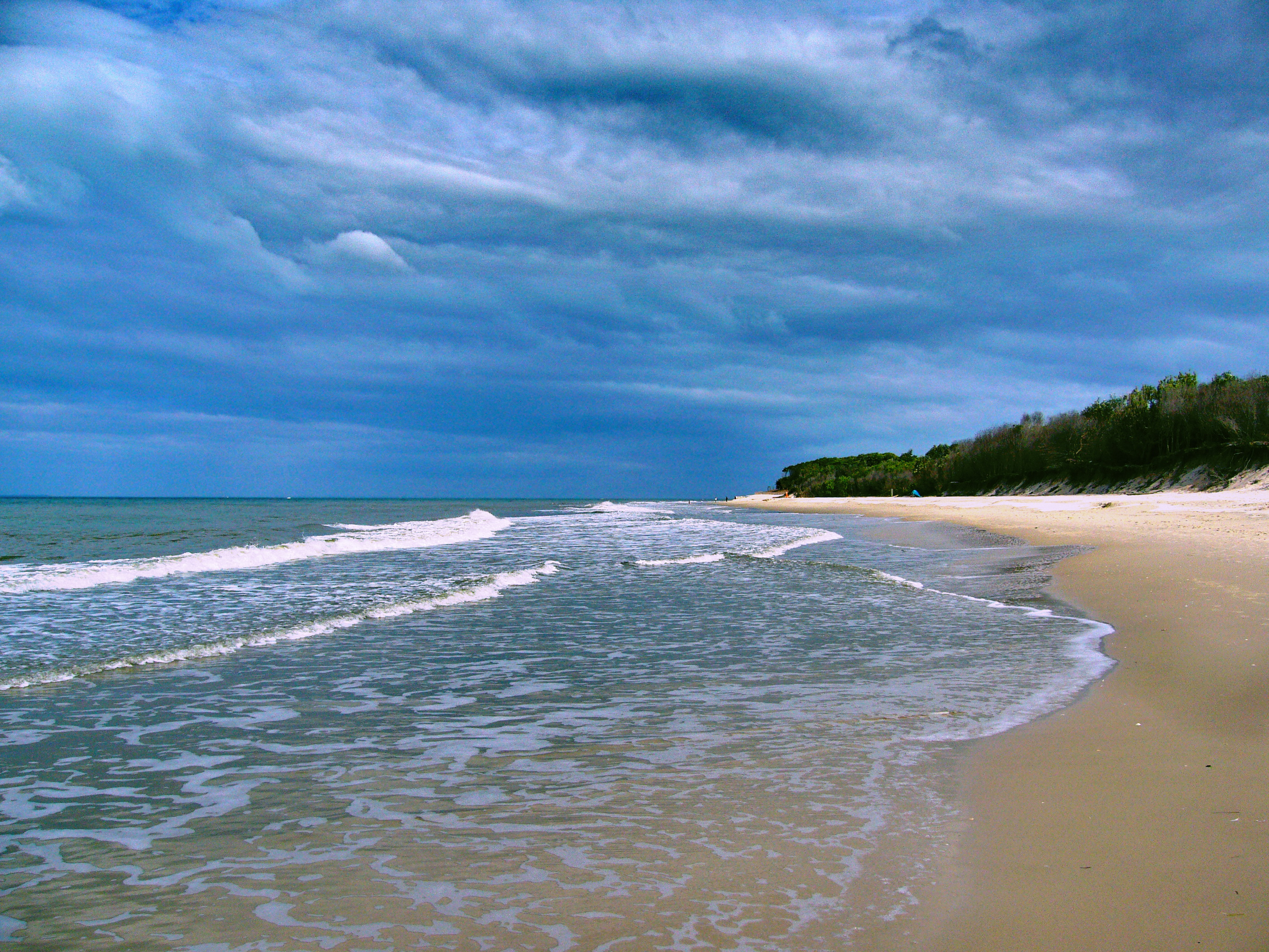 Briby Island